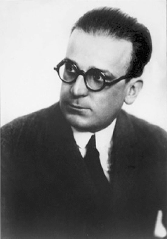 Moriz Seeler - poet, movie manufacturer and theatrical director.